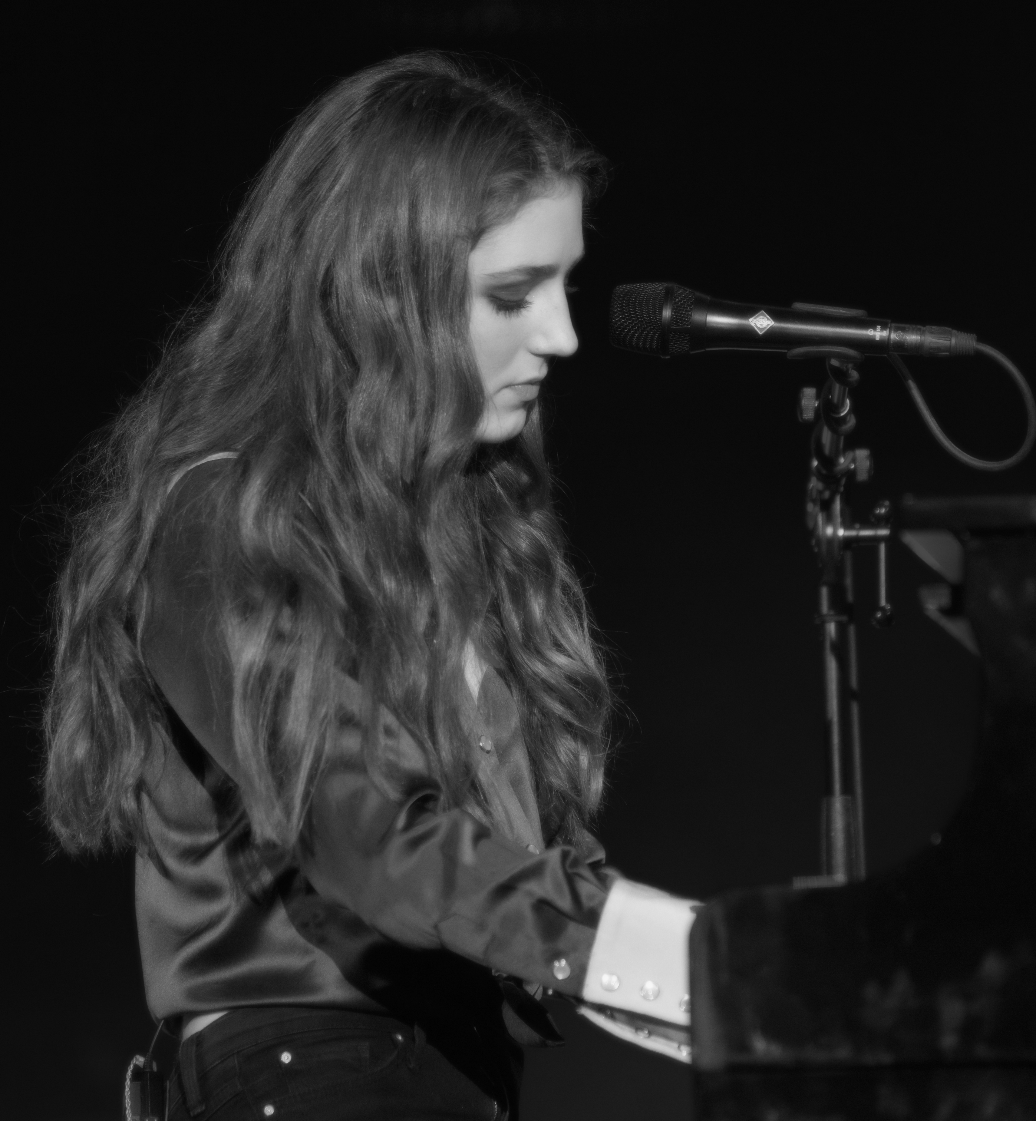 Birdy at New Pop Festival, Baden-Baden, 2013 (file has been modified by User:Sardaka by cropping it and making it B&W, 31-5-2016)